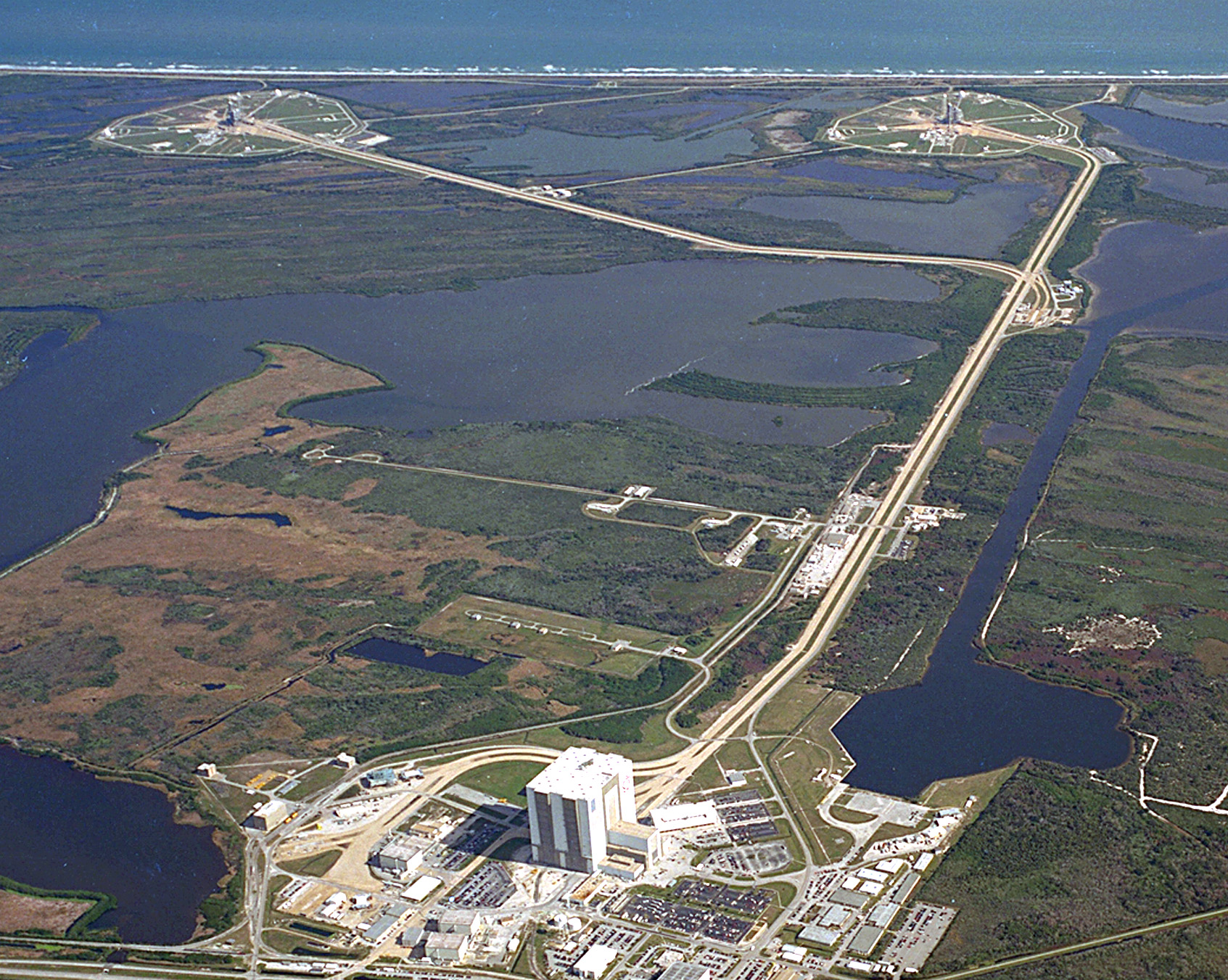 KSC's Launch Complex 39 is strategically located next to a barge site and a variety of structures, including a Vehicle Assembly Building (VAB), Orbiter Processing Facilities (OPF), Press Site, Launch Control Center (LCC), and a crawlerway to the pads. The crawlerway, leading to pads 39B on the left and 39A on the right, can be seen extending from the massive VAB at the left in this photo. The VAB, which covers eight acres and stands 525 feet tall, is used for assembly, stacking and mating of Space Shuttle elements. Originally built for assembly of Apollo/Saturn vehicles and later modified to support Space Shuttle operations, the VAB is one of the largest buildings in the world. The LCC, seen here as the small white building to the upper right of the VAB, is where launch, mission support, and loading are controlled.